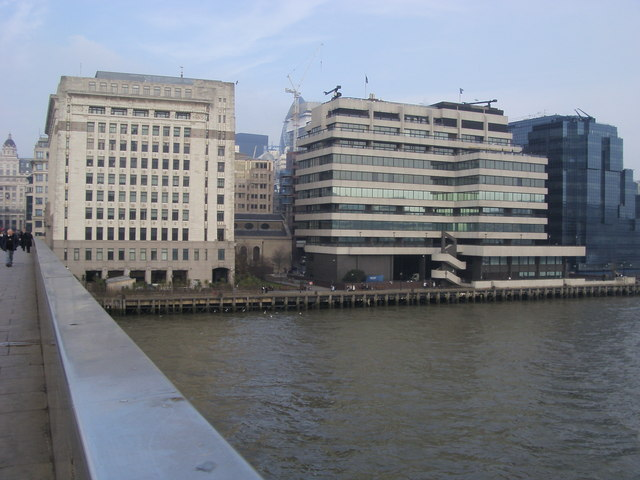 From London Bridge looking to the North side of the Thames, showing Adelaide House and St Magnus House.